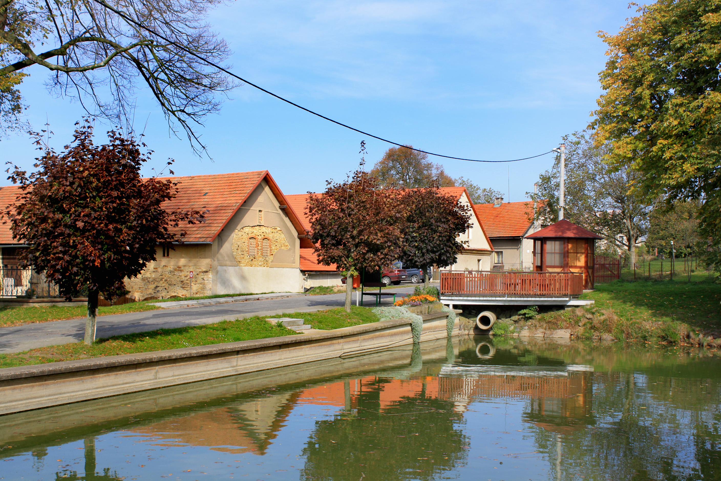 Common in Chlínky, part of Vrbice, Czech Republic